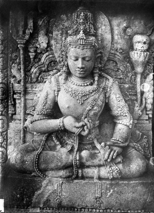 Lokapala relief at the temple dedicated to Shiva at the Candi Lara Jonggrang or Prambanan temple complex